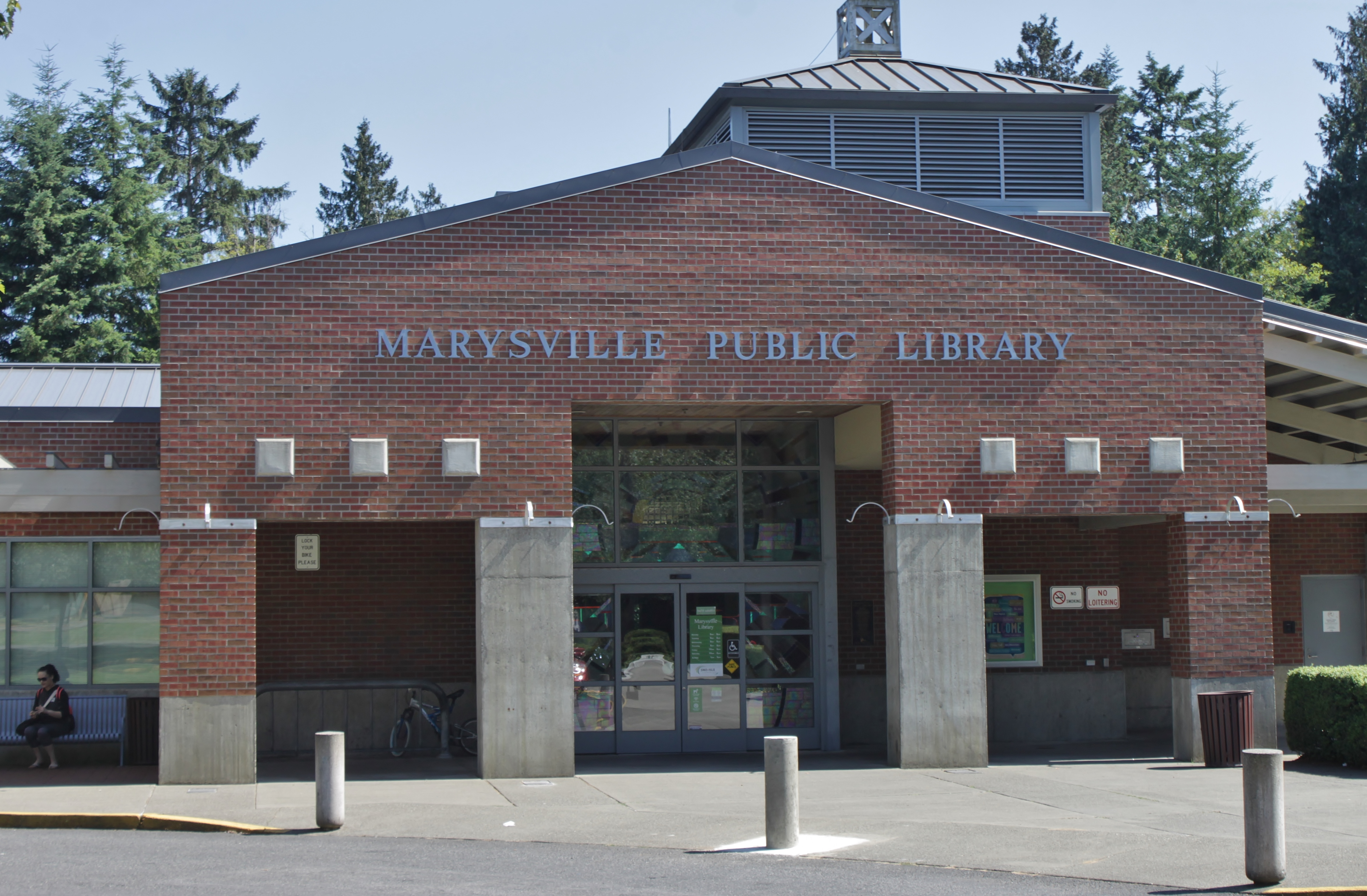 The Marysville branch of the Sno-Isle Libraries system, a public library district serving northwestern Washington.